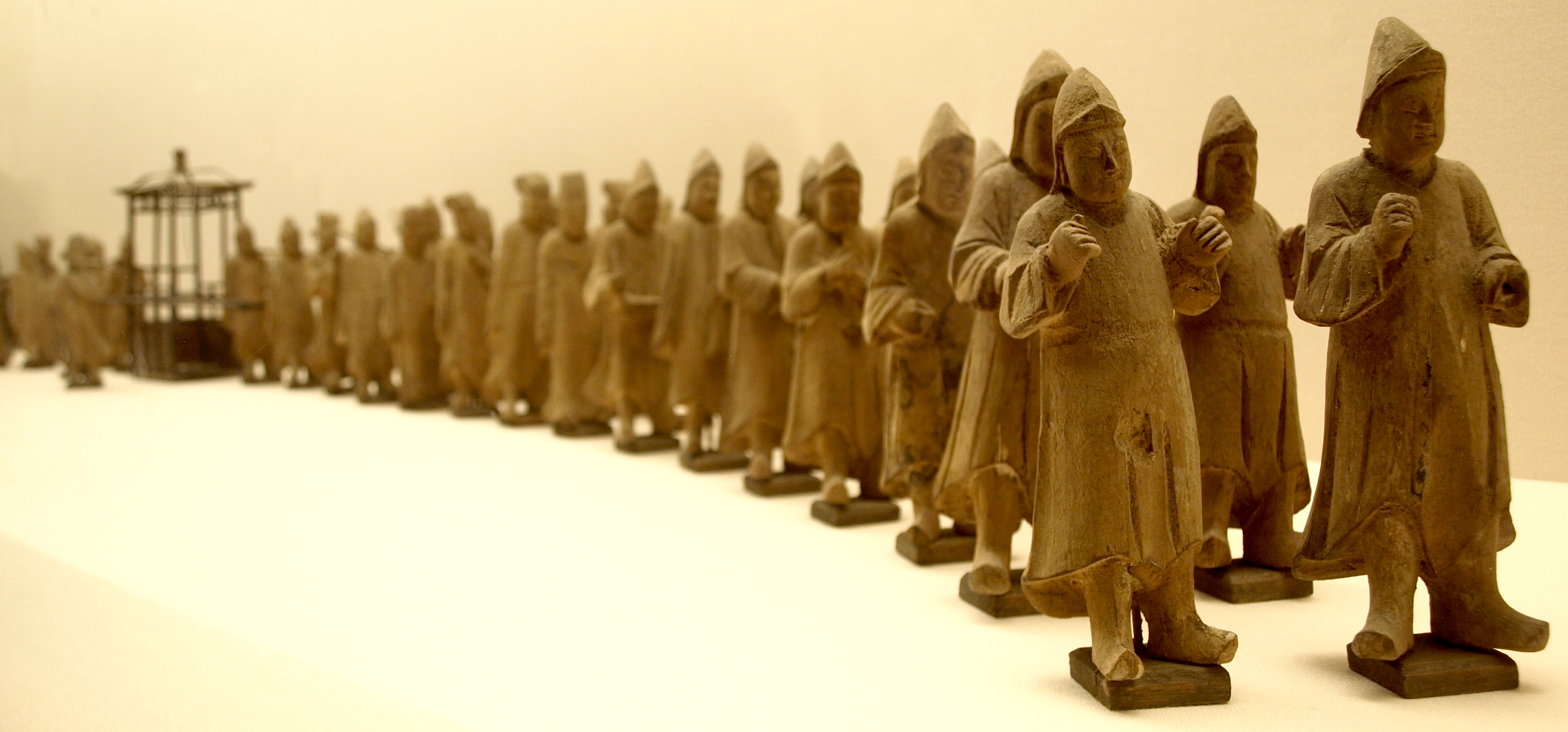 Processional tomb figurines from the tomb of Pan Yongzheng. He lived during the Jiajing and Wanli reigns of the Ming dynasty, and was an Guanlushi official. The figurines are made of Ju wood. The tomb was discovered in Shanghai by Zhaojiabang Road in August 1960. On display at the Shanghai Museum.